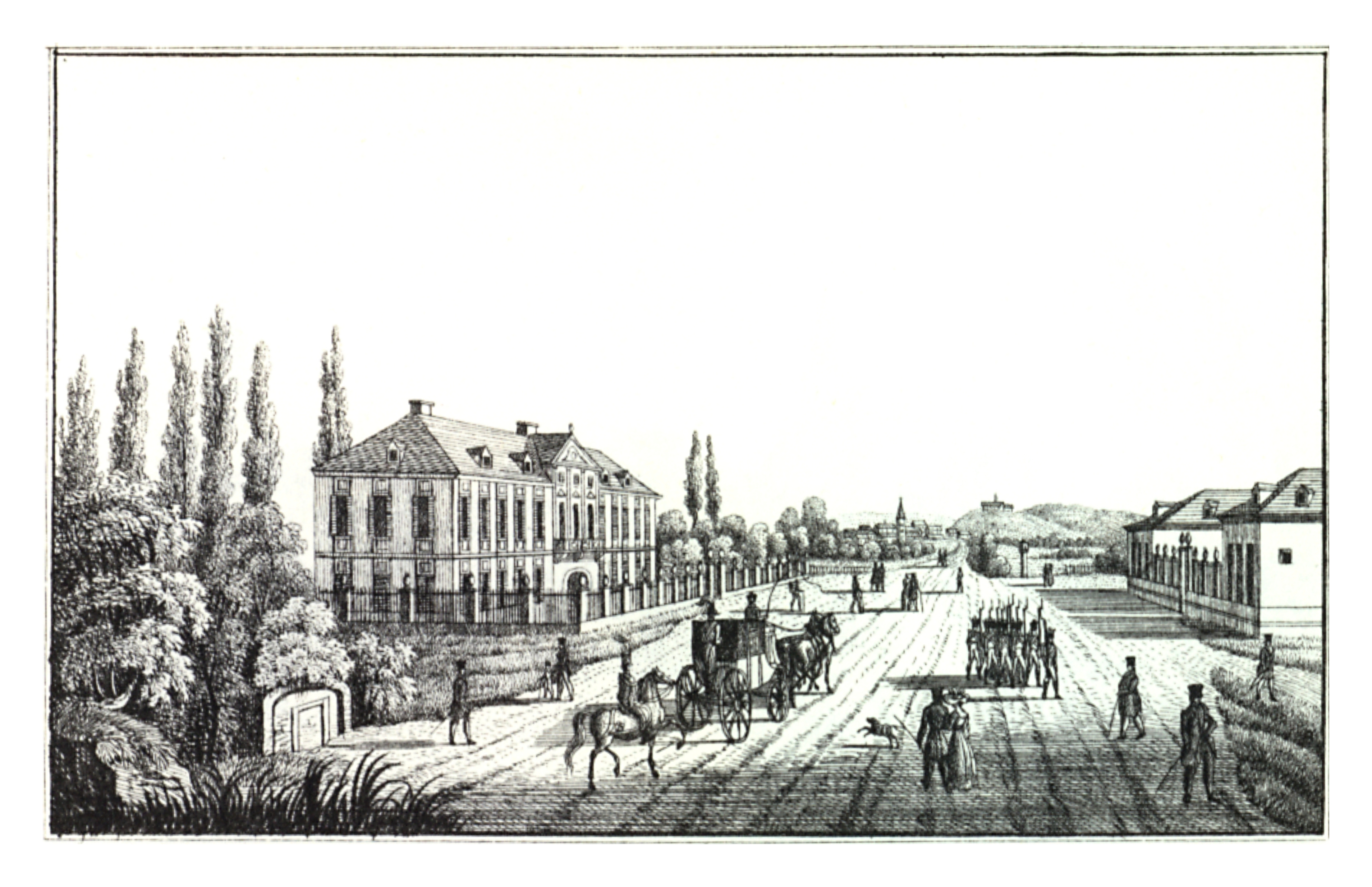 J. F. Kaiser - lithographirte Ansichten der Steyermärkischen Städte, Märkte und Schlösser Graz, 1825 Gut Freudenau befindet sich in Apače, Abstall, im Ortsteil Schirmdorf. siehe auch Landesarchiv Steiermark Scanprojekt Community Projektbudget 2012 This scan or this PDF-file was created within the GLAM-project Bookscanning, supported by Wikimedia Germany and Wikimedia Austria as a part of the community-project to capture books, documents and pictures which are not eligible to copyright or for which the copyright has expired. This document describes or depicts an object which is located in Austria today. Send requests for uncompressed scans to Hubertl. This work is in the public domain in its country of origin and other countries and areas where the copyright term is the author's life plus 100 years or less. You must also include a United States public domain tag to indicate why this work is in the public domain in the United States. This file has been identified as being free of known restrictions under copyright law, including all related and neighboring rights.